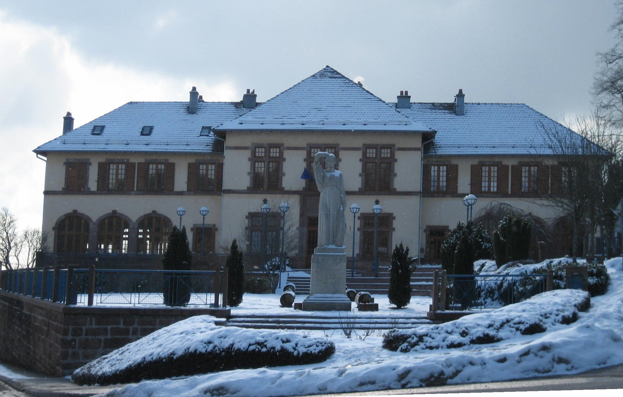 Town hall of Ban-de-Sapt in Launois (88210), France.